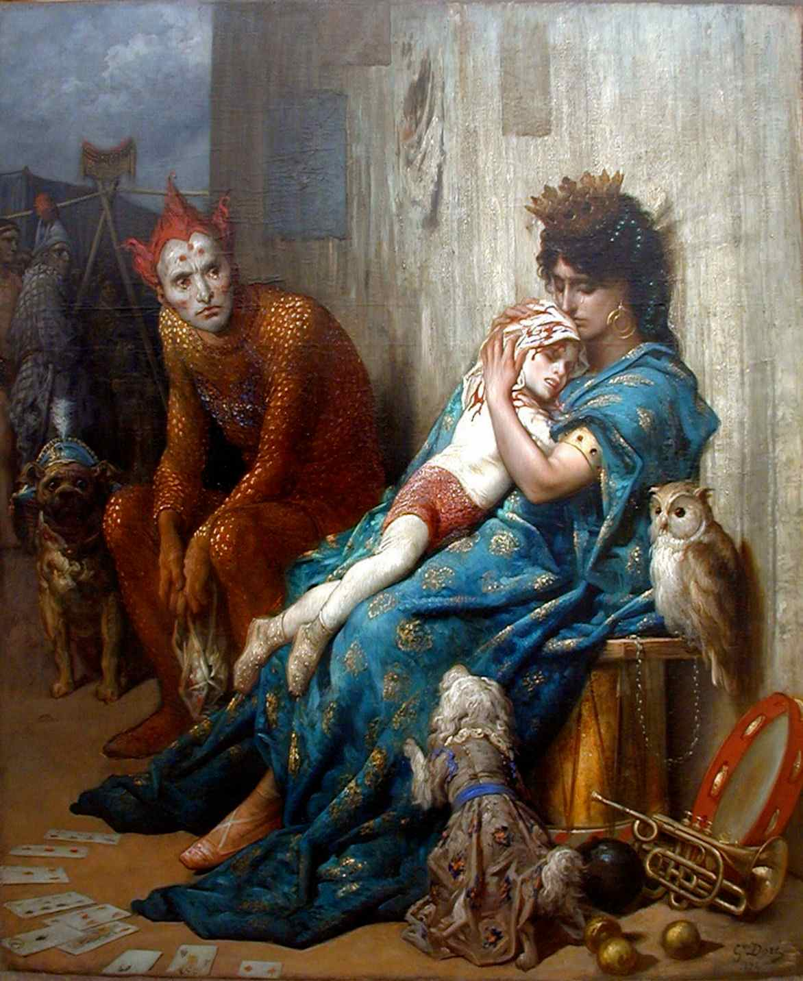 Gustave Doré (french painter), Les Saltimbanques [Magicians], 1874. Location : Musée d'art Roger-Quilliot, Clermont-Ferrand. Type : oil painting. Dimensions : 224 x 184 cm (88 X 72 in).